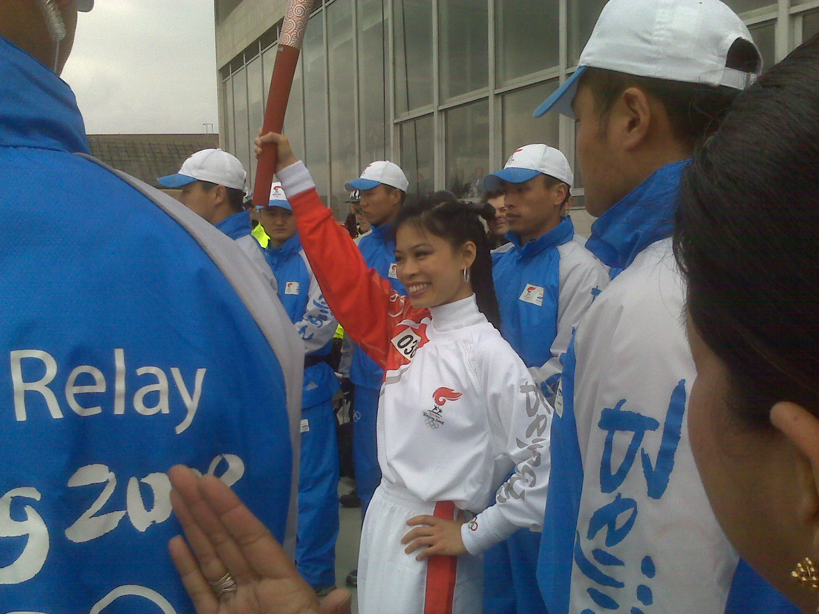 Vanessa Mae holding olympic torch at the Southbank Centre, London, England (taken on April 6, 2008). April 6th 2008